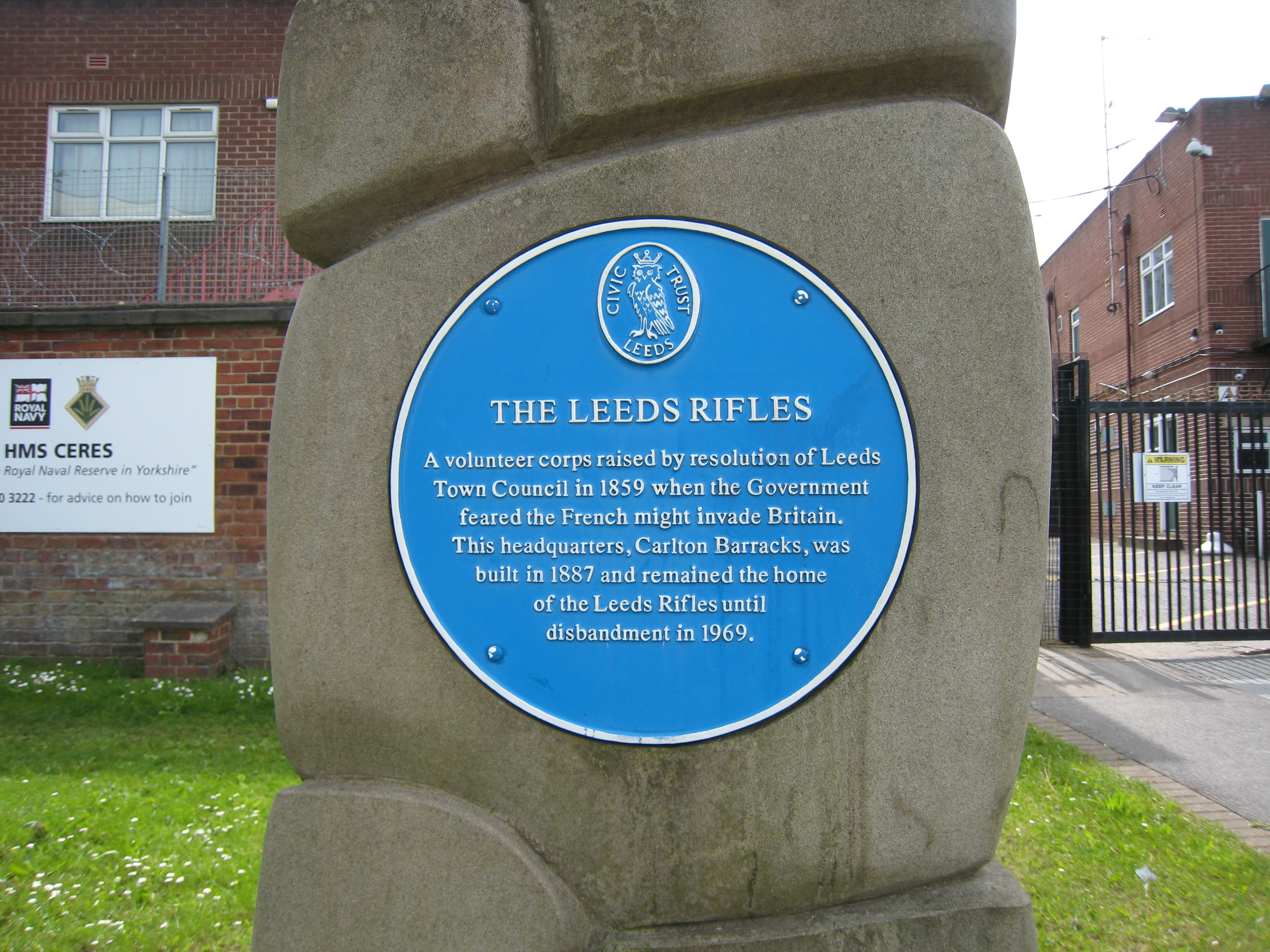 Blue plaque commemorating the Leeds Rifles on a stone outside the gates to Carlton Barracks and HMS Ceres, Leeds